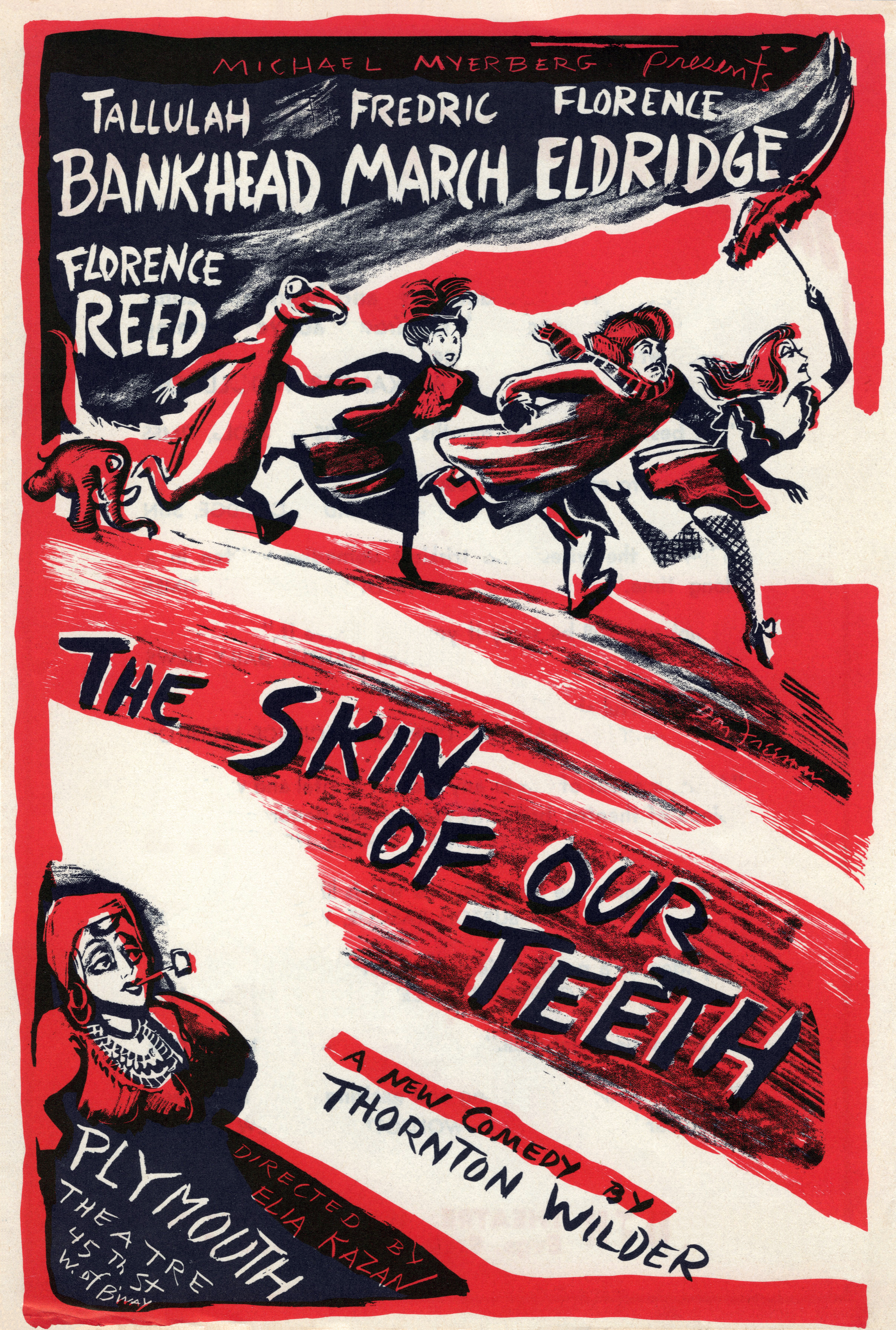 Handbill for the original 1942 Broadway production of Thornton Wilder's The Skin of Our Teeth More information